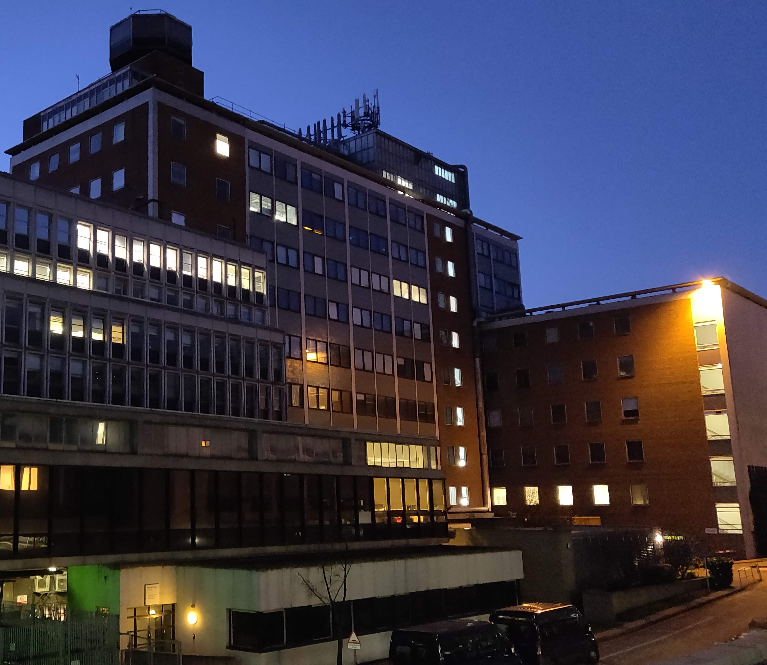 A view of the back of the The Blackett Laboratory at Imperial College London, home to the Department of Physics, from the main walkway. The Huxley Building can be seen to the left of the image, in front of the laboratory, partially obscuring the south side of the lower floors.